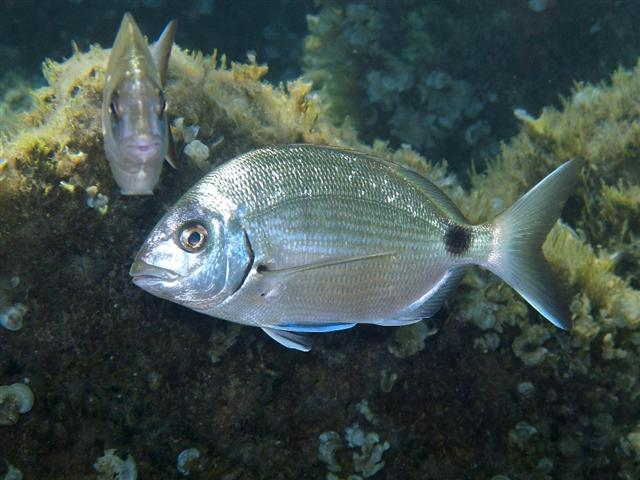 Diplodus sargus photographed in Minorca, Spain.